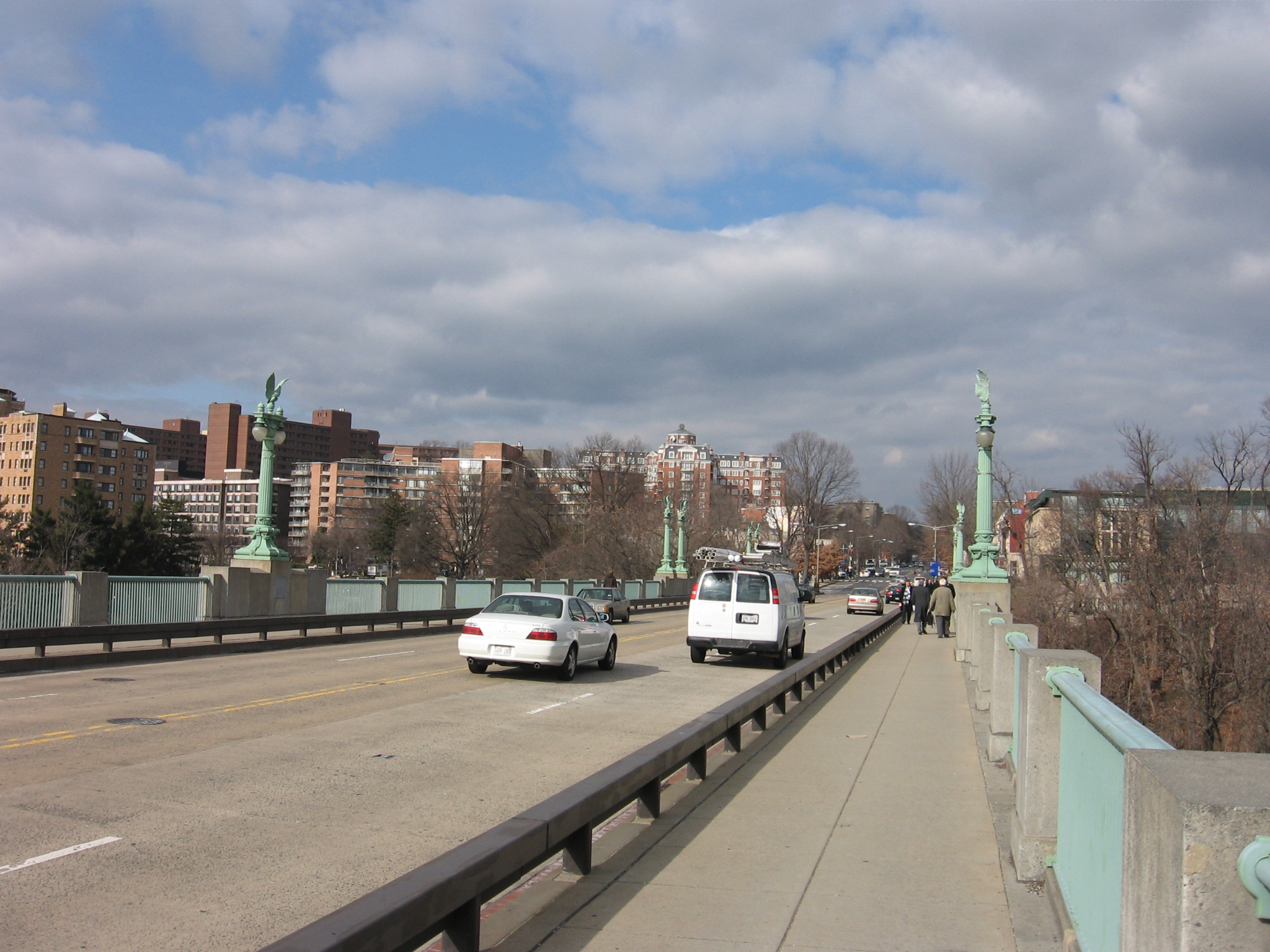 Washington DC, Connecticut Avenue, Taft Bridge